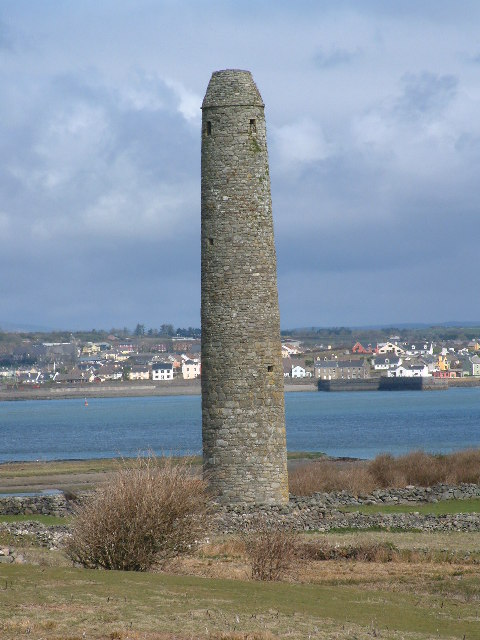 Scattery Island Round Tower